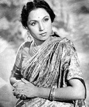 Hindi film Actress, Lalita Pawar (1916—1998), playing a lead role.